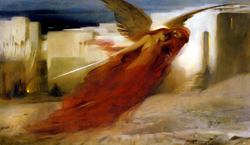 A painting evoking a Biblical subject on Exodus 11:6 and Exodus 12:30